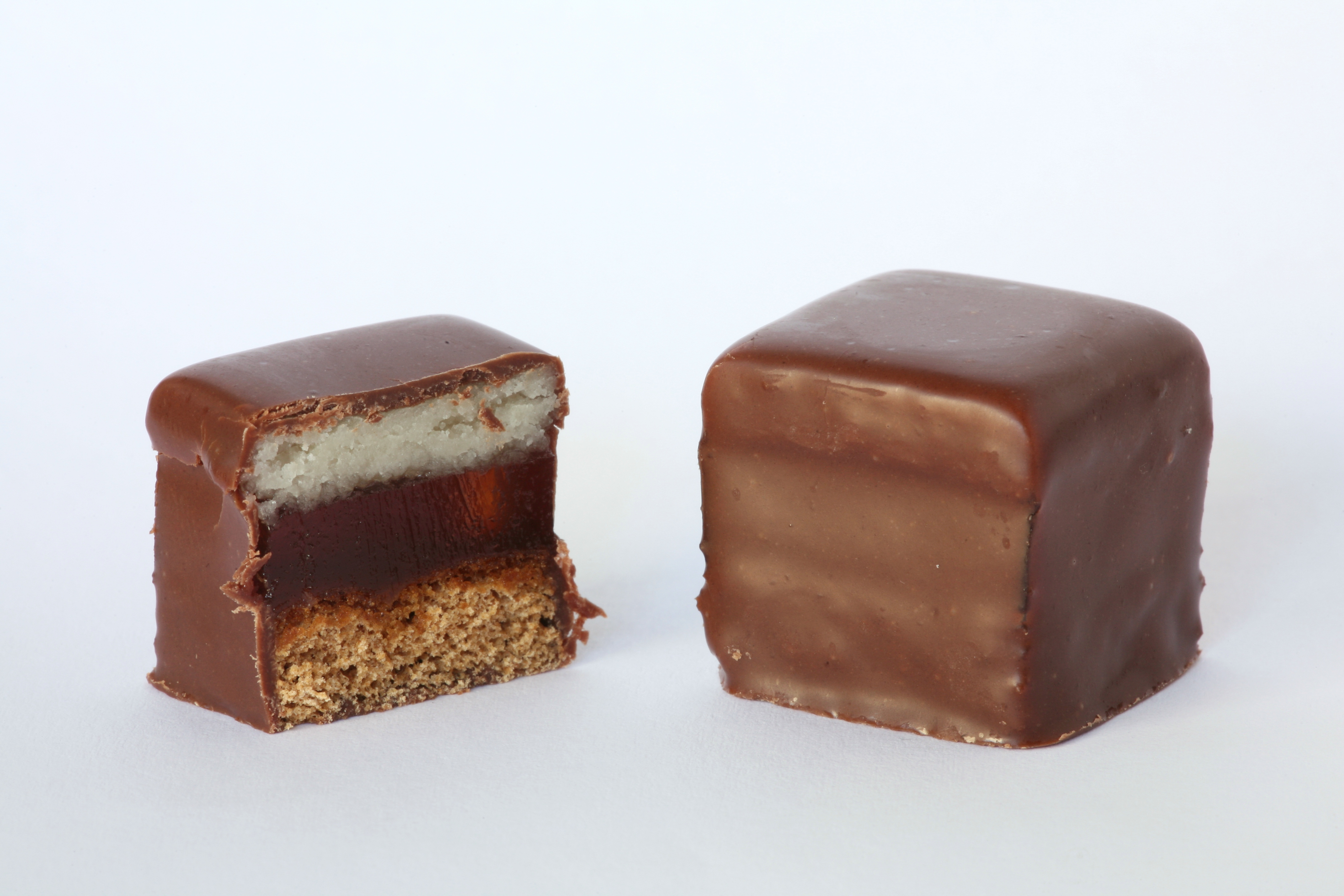 Milk chocolate covered typical german Christmas time sweet Dominostein (domino piece). In the crossectional view the three layers are clearly visible: gingerbread on the bottom, apple jelly in the center, and persipan on top.